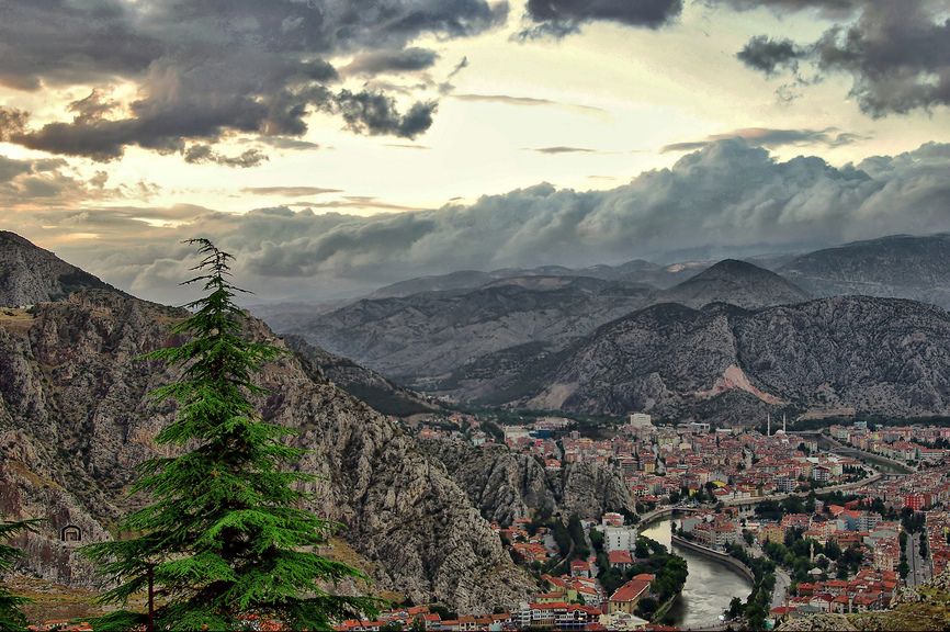 Amasya is a province of Turkey, situated on the Yeşil River in the Black Sea Region to the north of the country